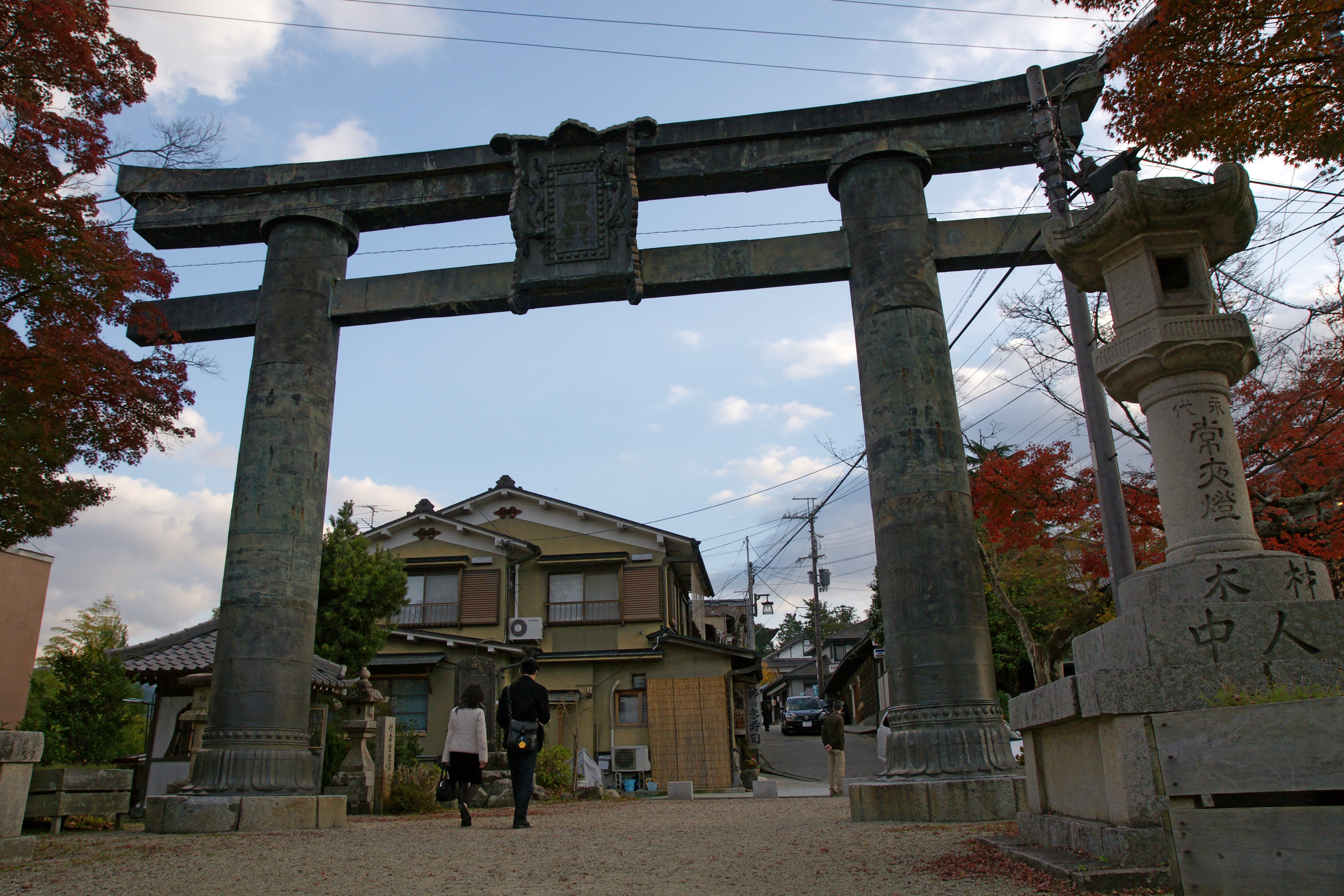 at Naka-no-senbon area in Yoshino, Nara prefecture, Japan